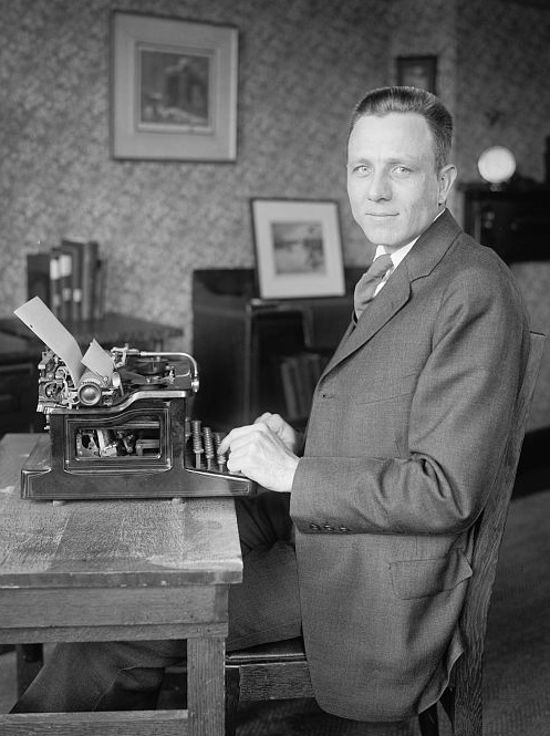 American writer and screenwriter Harvey Fergusson (1890-1971)